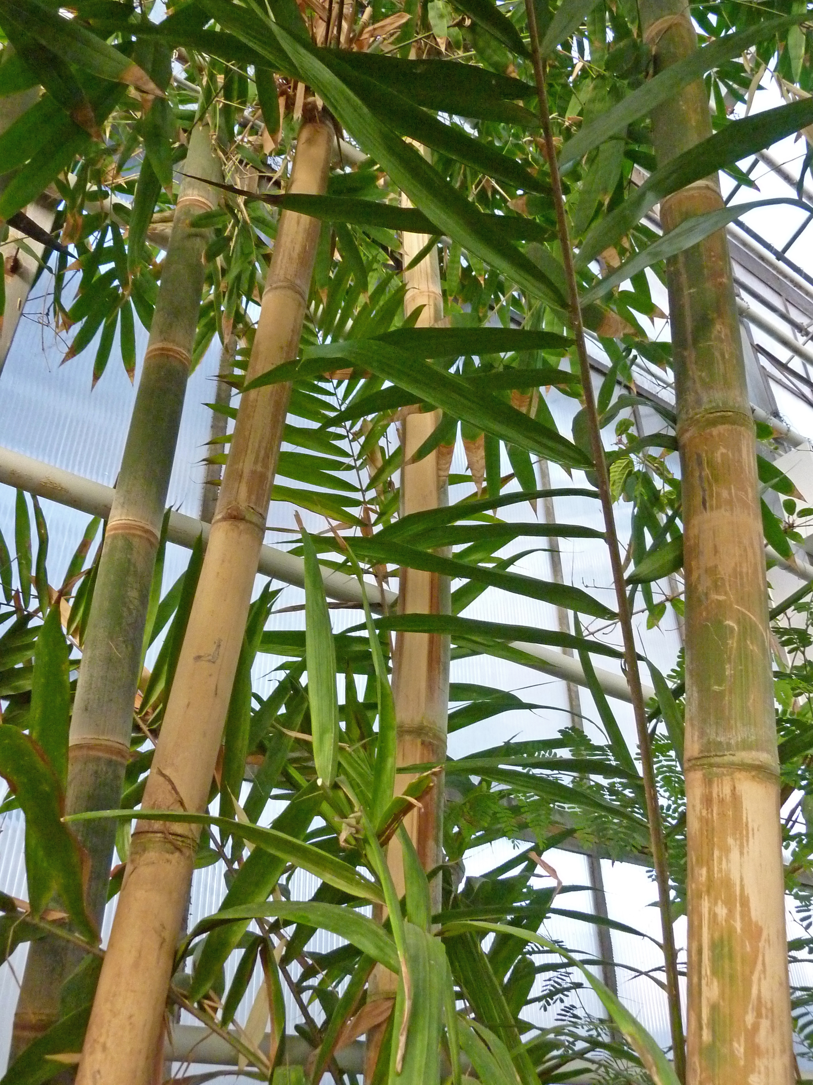 Bambusa vulgaris growing in the greenhouse of the Deutsches Institut für tropische und subtropische Landwirtschaft, Witzenhausen, Germany